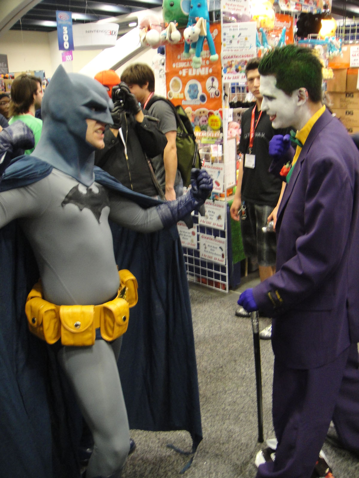 WonderCon 2011 - Batman vs the Joker